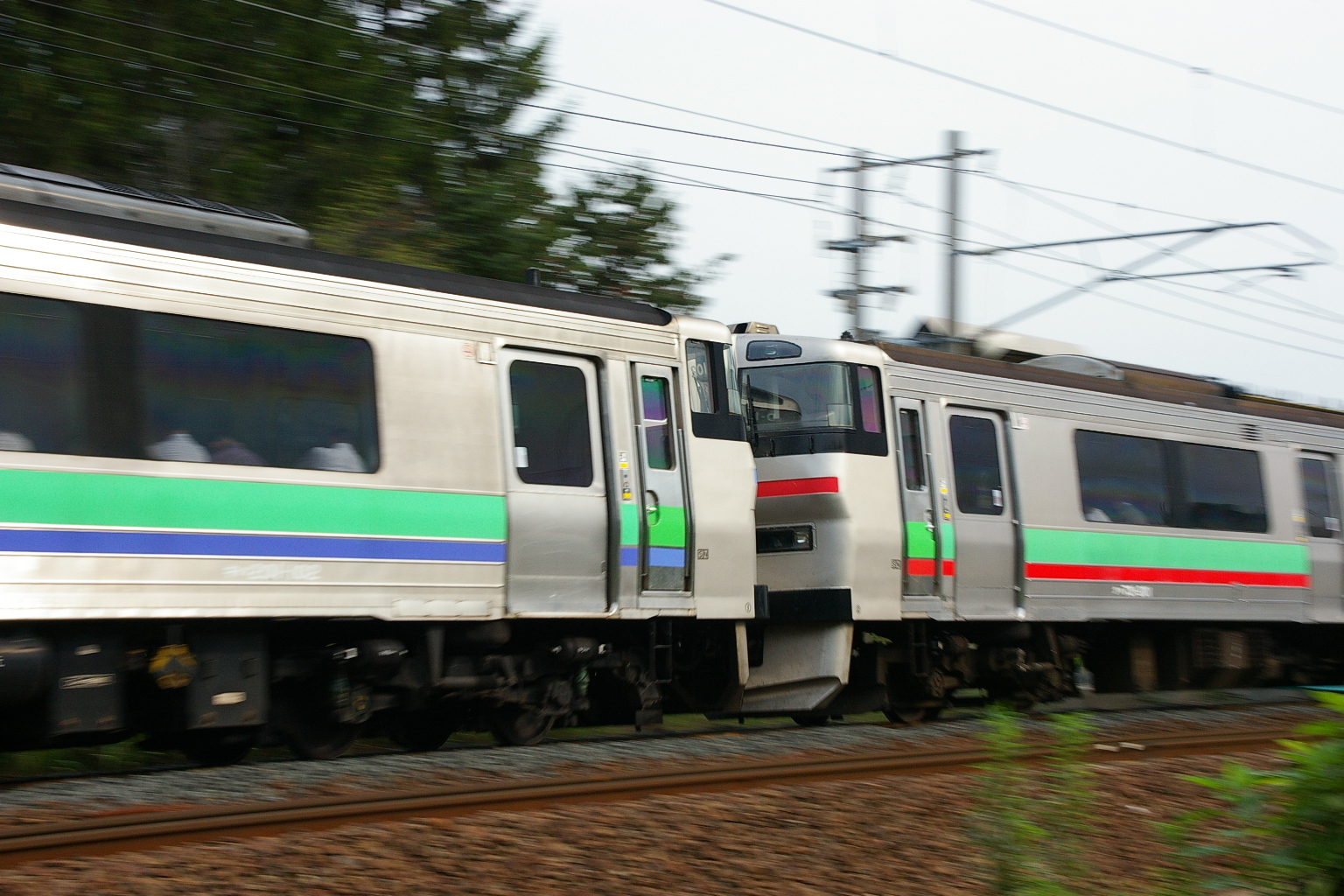 JR Hokkaido KiHa 201 series DMU (left) running in multiple with 731 series EMU (right)